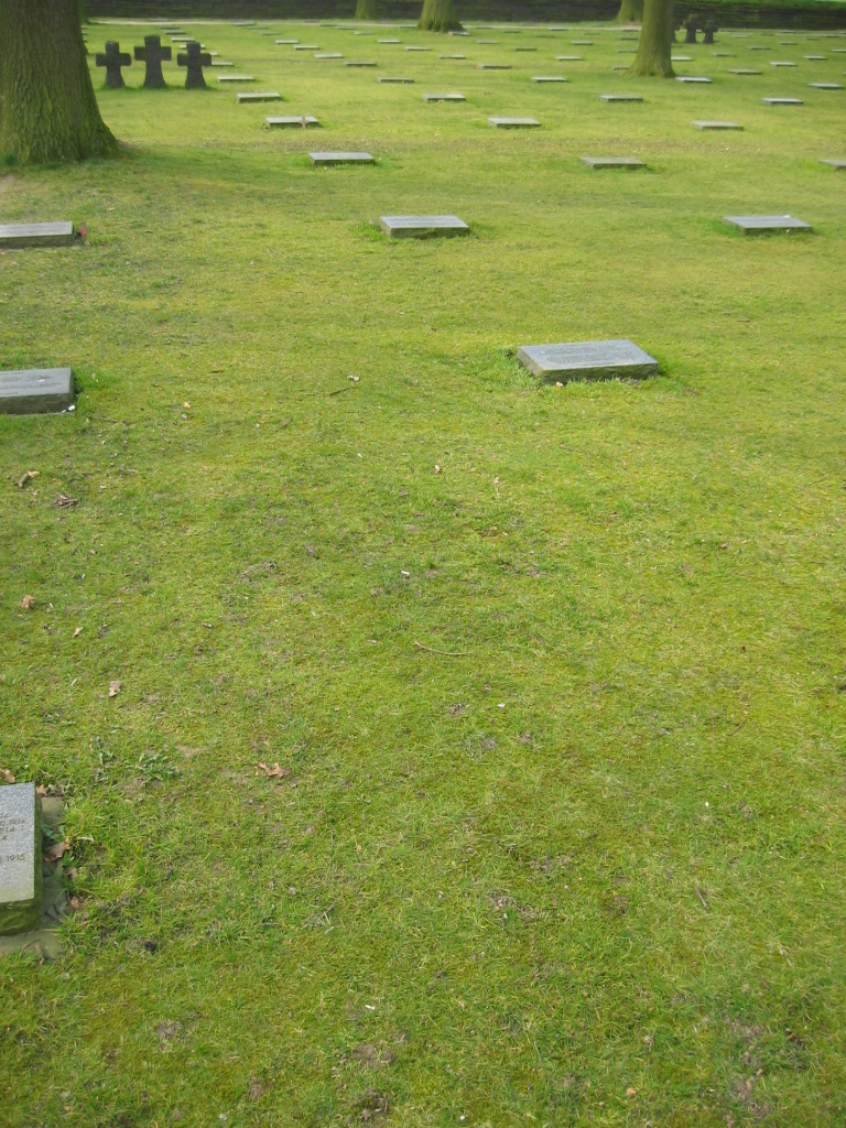 German mass grave in Langemark, West-Flanders, Belgium. In the war grave there are more than 44.000 German soldiers, fallen in the Great War of 1914-1918. Beneath and between the roots of these oak trees, are 10.143 soldiers of which 3.836 remain unknown. Picture made by Tim Bekaert.